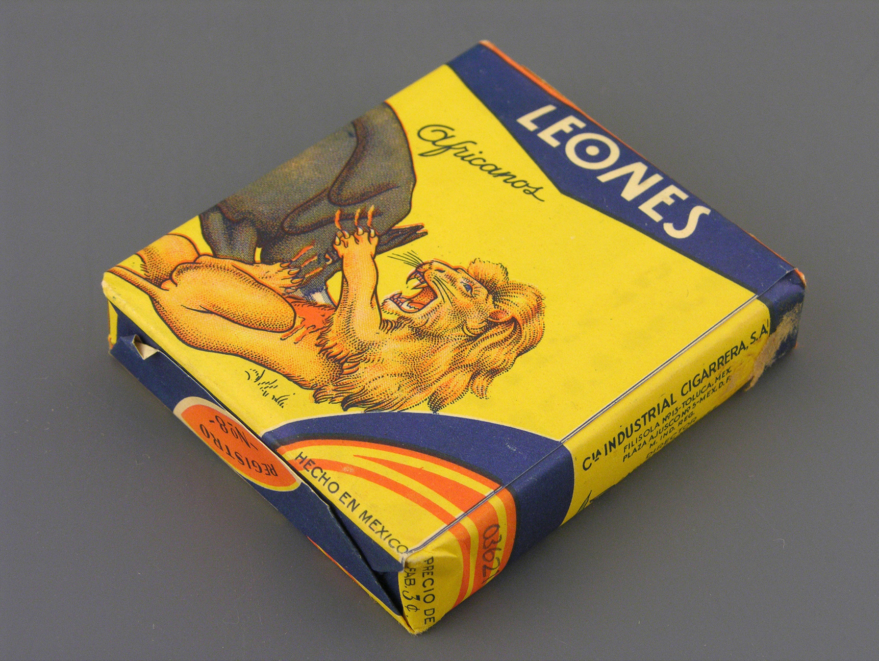 Leones Africanos cigarettes paper wrapper mid 20th century